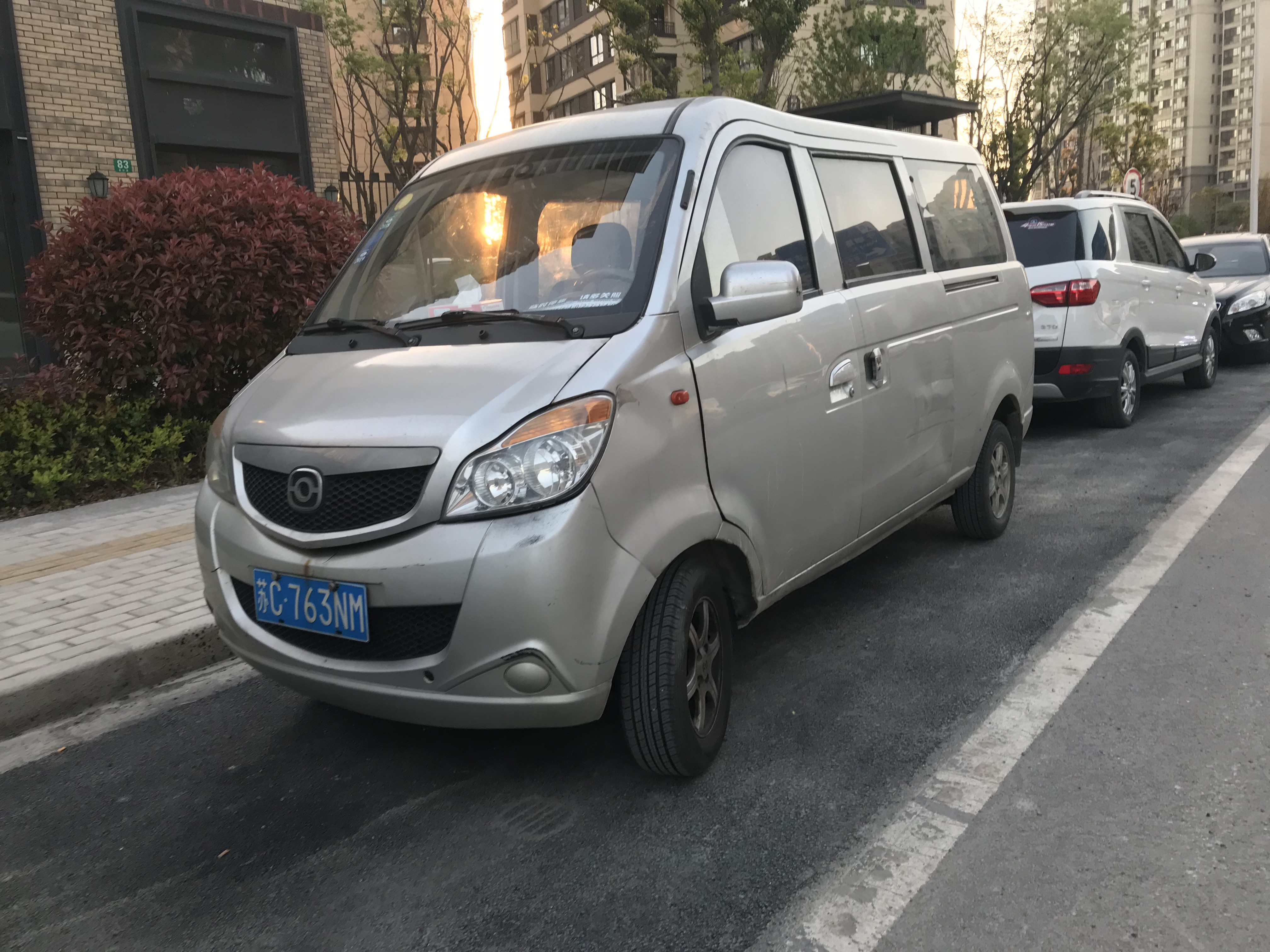 Haima Fstar minivan